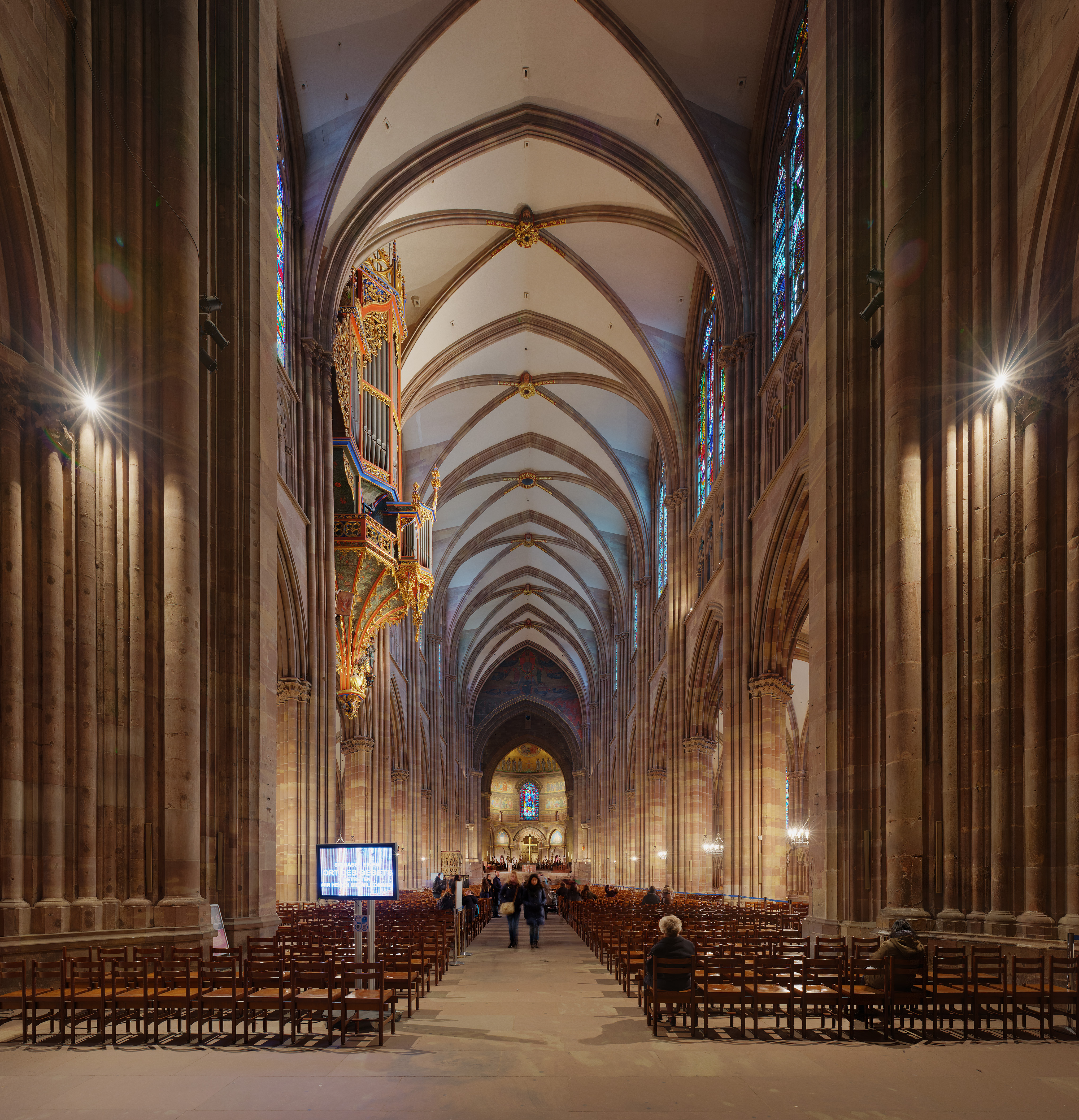 Strasbourg Cathedral, as viewed from the rear looking down the central isle. The isle is not actually central to the pillars however, so in effect the view is slightly left of the true centre of the Cathedral.